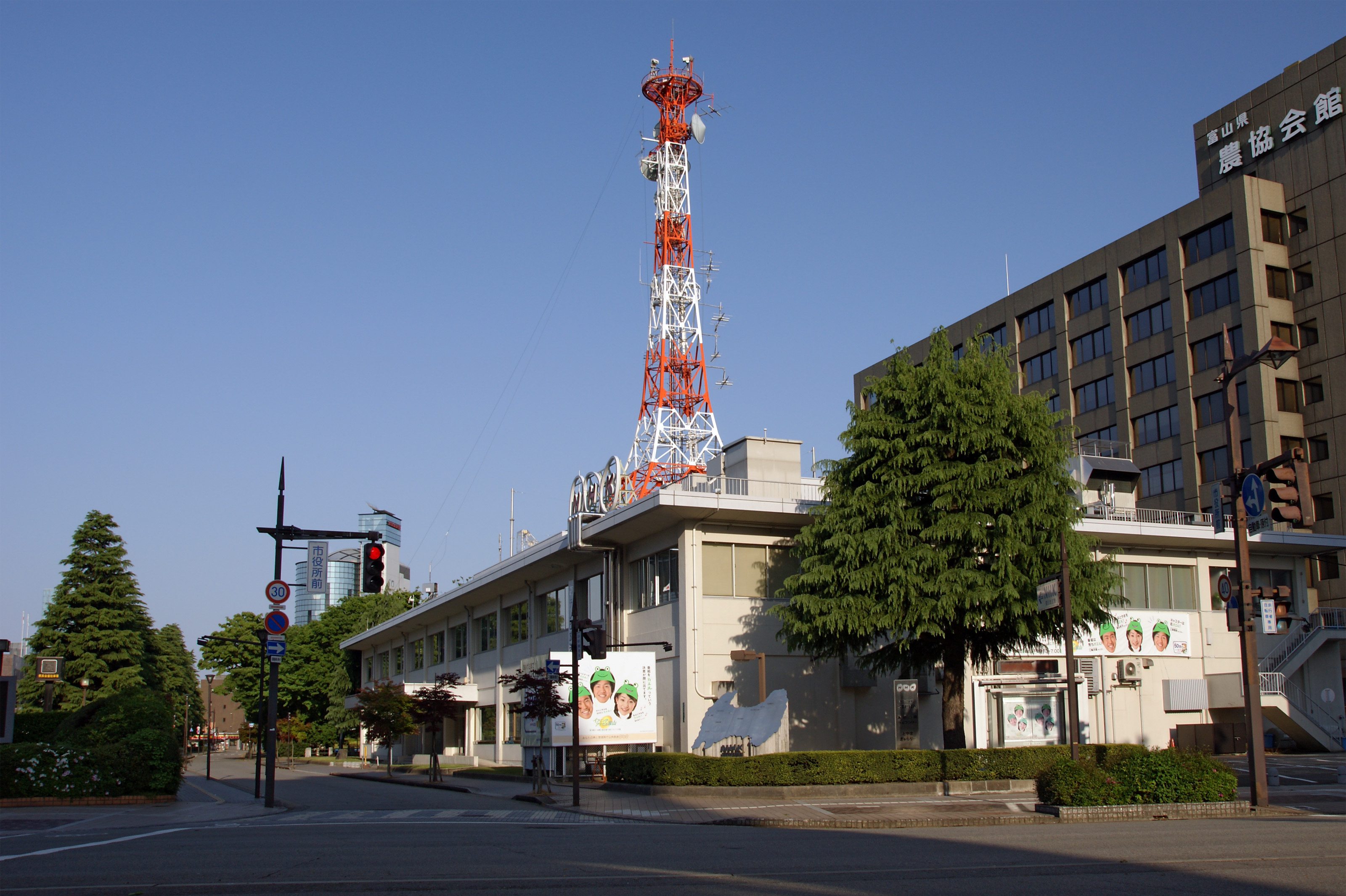 NHK Toyama broadcast station, Toyama, Toyama prefecture, Japan